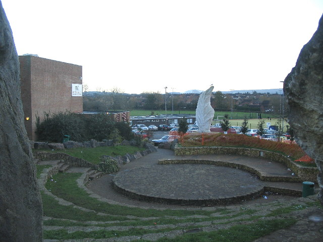 Merlin Theatre, Frome. Looking southeast over the outdoor performance space at the Merlin Theatre, Frome. The amphitheatre is surrounded by standing stones of limestone and sandstone. Snow can be seen lying on the north facing slopes of Cley Hill, near Warminster, just left of the white carved stone at centre.